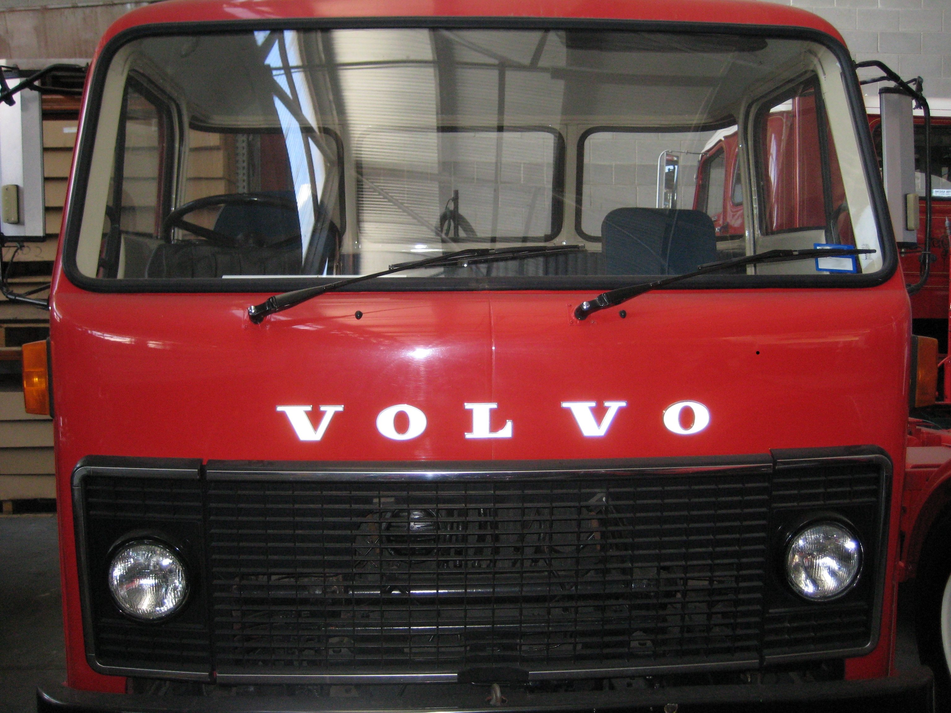 Volvo F86 truck front view